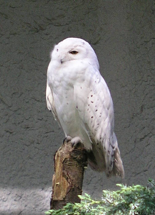 Bubo scandiacus, 13/05/2005 Zoo Amersfoort